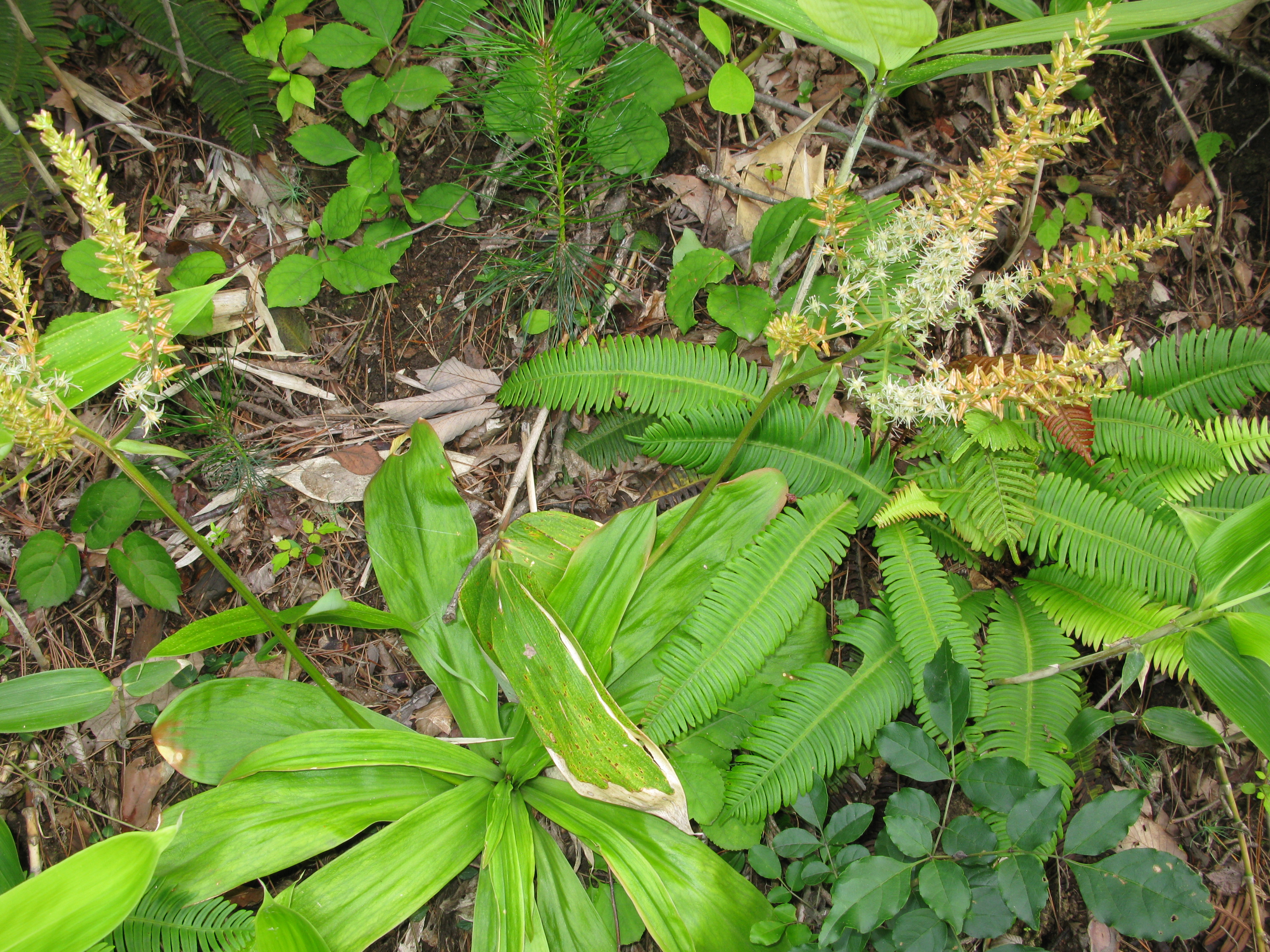 Aletris luteoviridis, Aizu area, Fukushima pref., Japan